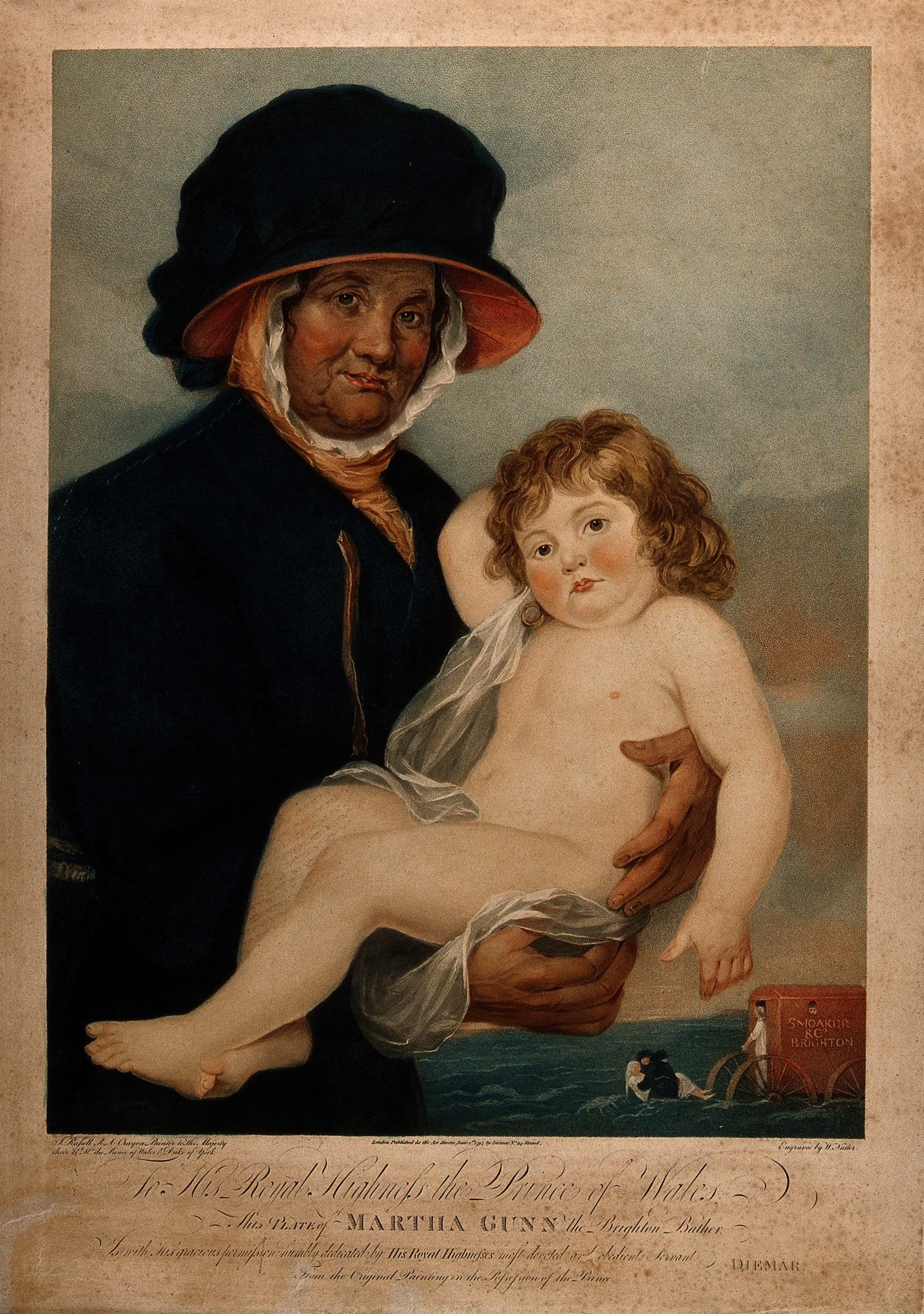 Martha Gunn, a Brighton bather holding a small child that she has just saved from drowning. Coloured engraving by W. Nutter, 1797, after J. Russell. Iconographic Collections Keywords: martha gunn; Martha Gunn; Drowning; John Russell; William Nutter; w nutter; j russell; icv